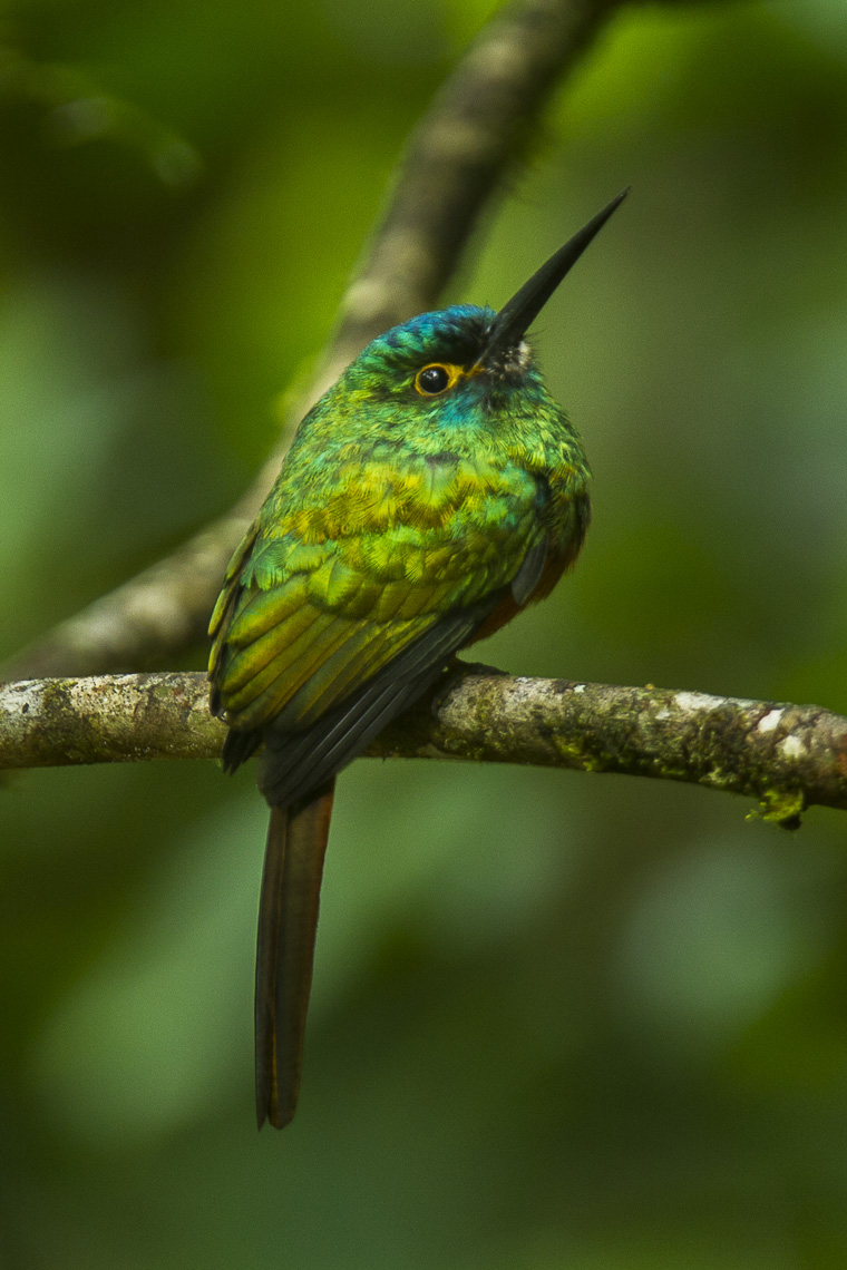 Coppery-chested Jacamar - Ecuador_S4E0608